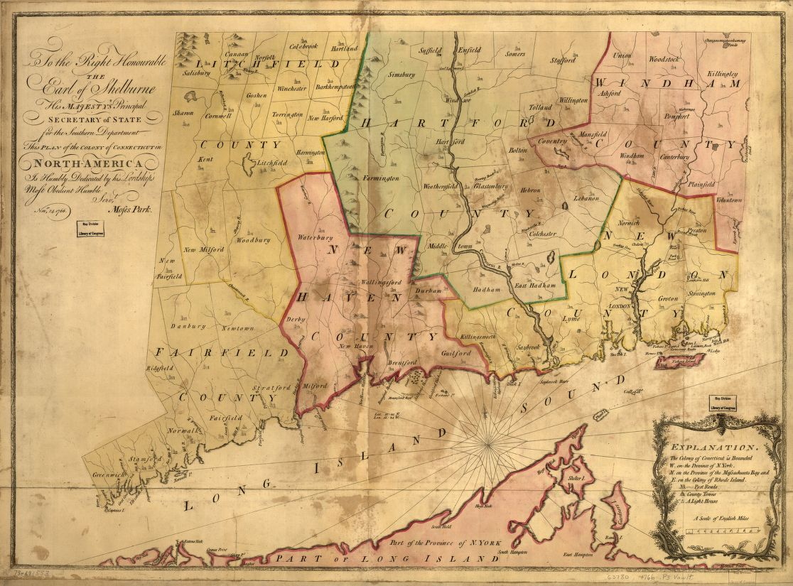 Map of the colony of Connecticut circa. 1766 Relief shown pictorially Shows counties, towns, rivers, and post roads.